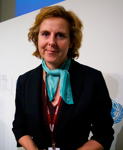 Connie Hedegaard, former Danish Minister for Climate and Energy and was the president of COP15.